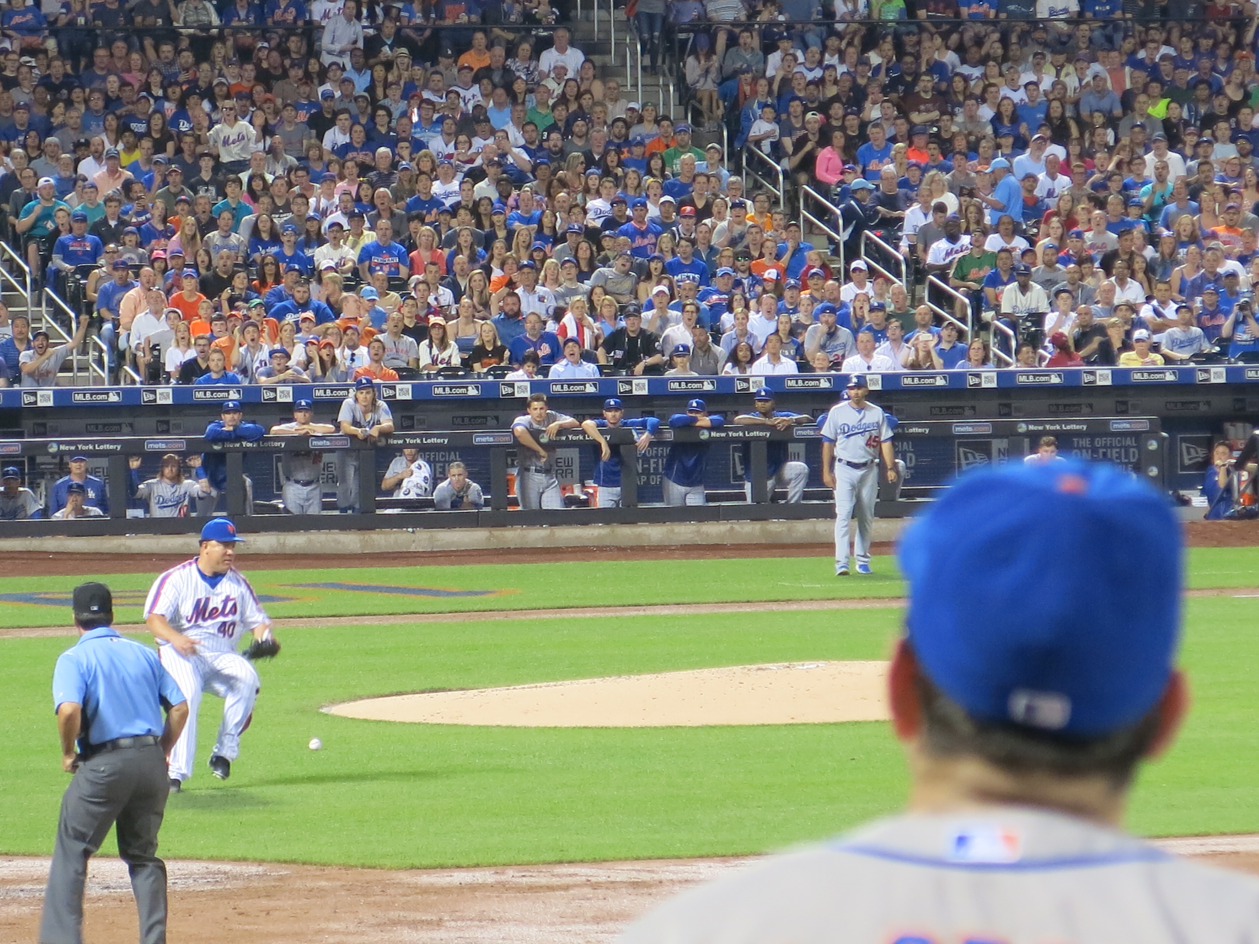 Bartolo Colón of the New York Mets makes a fielding error, May 29, 2016.